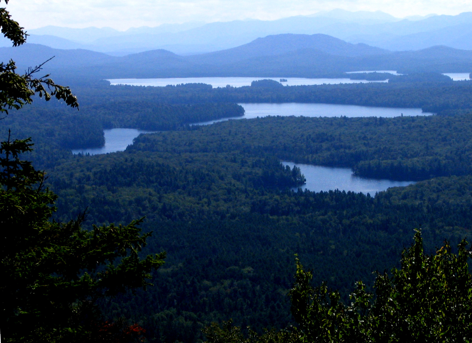 View from Long Pond Mountain of the Saint Regis Canoe Area, New York. Taken by User:Mwanner, 26 August, 2006.